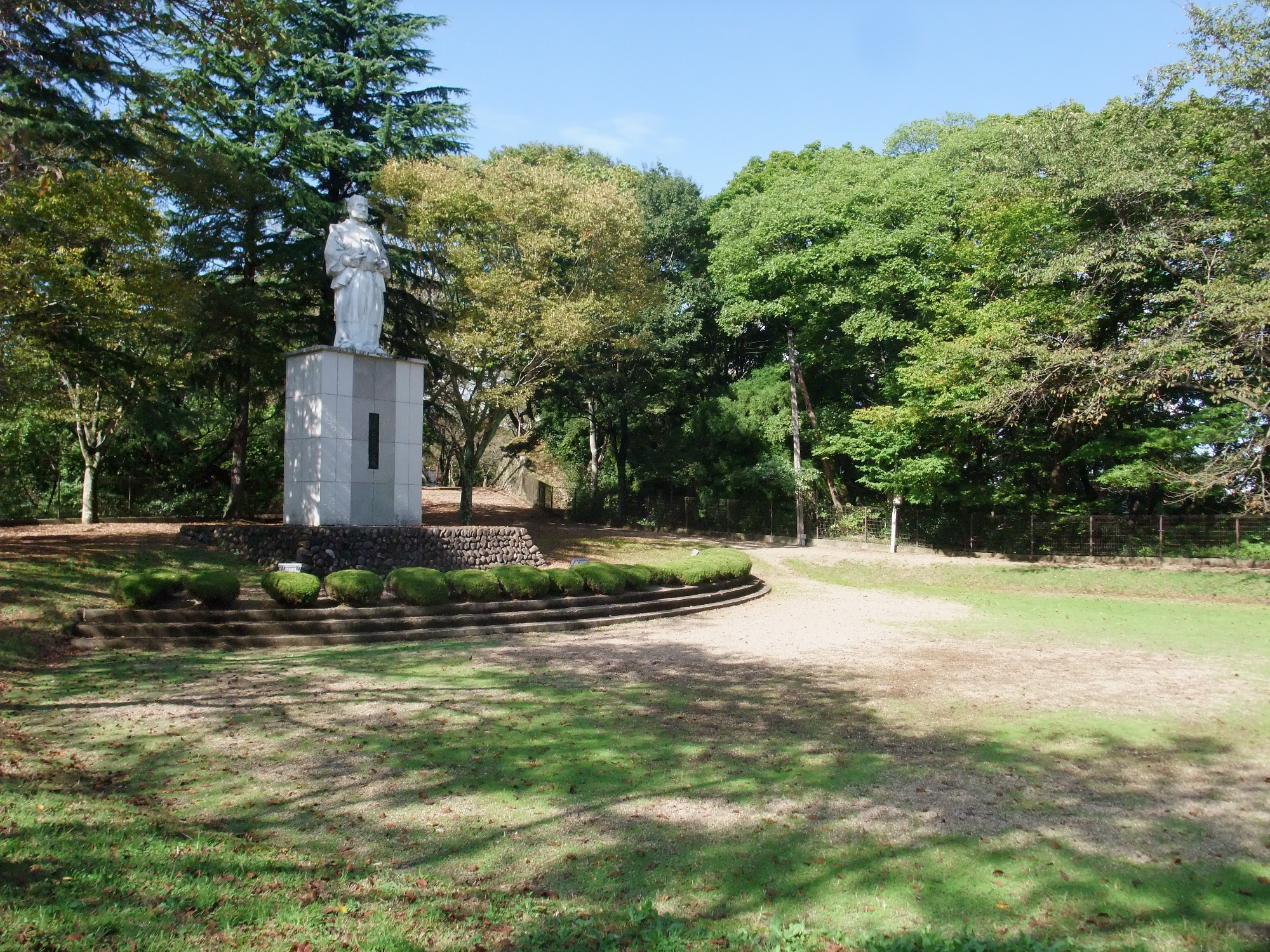 Nishi-no-Koshikuruwa (West fort) of Iwadeyama Castle in Ōsaki-shi, Miyagi.